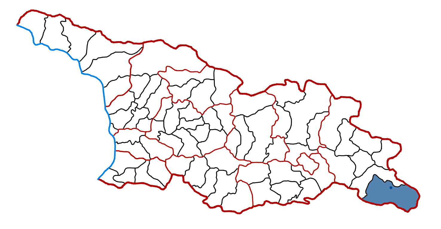 Location of Dedoplis Tsqaro district in kakheti georgia